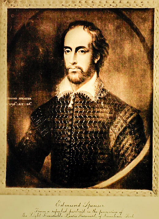 A reproduction of an oil painting of Edmund Spenser from the collection of the Right Honorable Lewis Harcourt. Printing on the painting spells the name, Edmond Spencer.